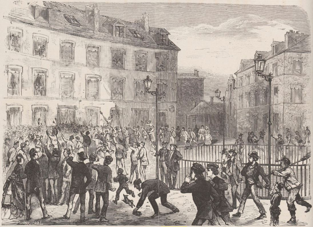 The house of Victor Hugo in Brussels attacked by a mob. Etching from Le Monde illustré of 15 July 1871, by G. Marichal (after a sketch by Von Eliot)